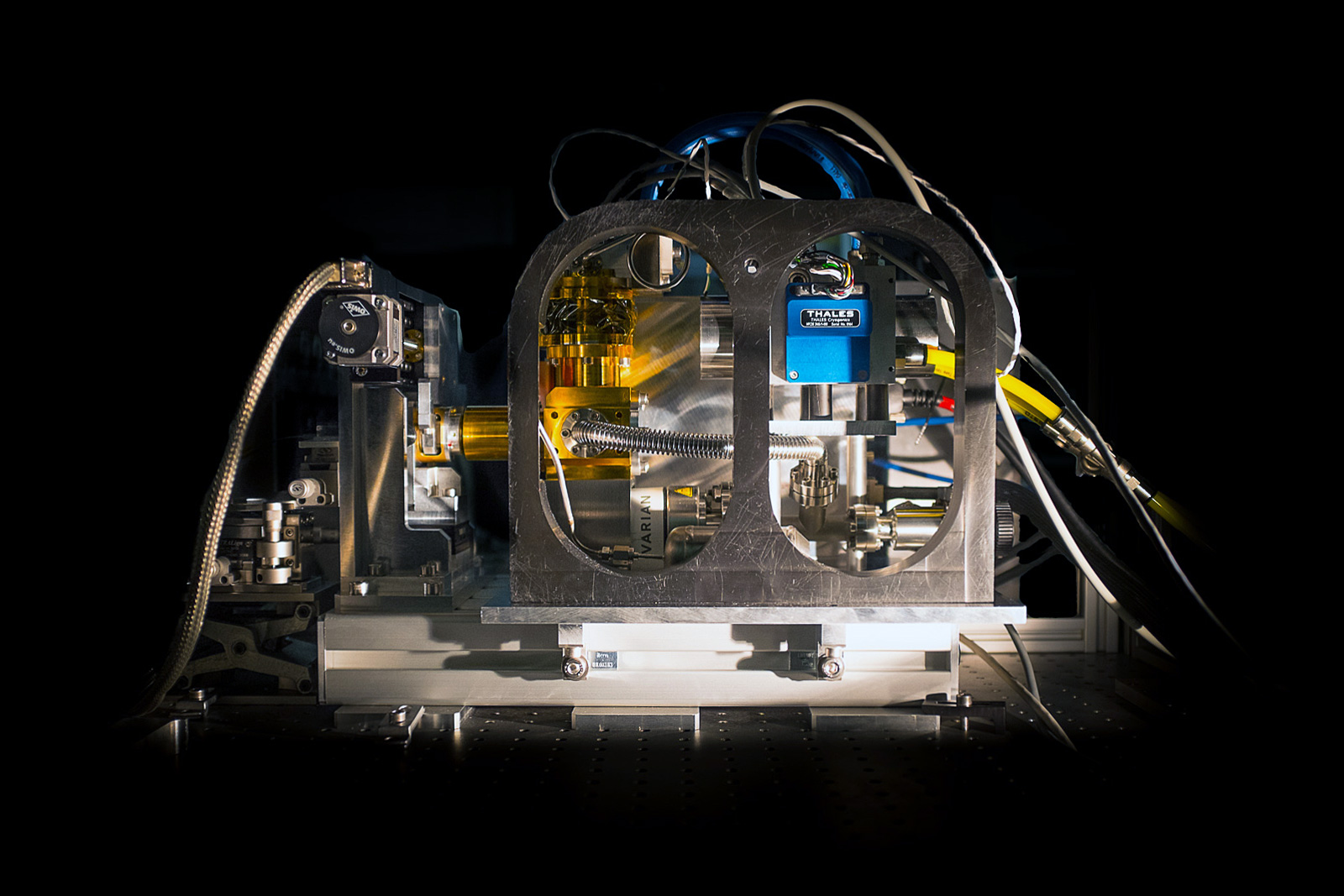 This picture shows the first prototype of RAPID, a new generation of fast and very sensitive detectors that has been successfully installed on the PIONIER instrument at ESO’s Paranal Observatory. This achievement is the result of five years of sustained collaboration and effort from academic institutes (LETI, ONERA, IPAG, LAM) and industrial partners (SOFRADIR). As its name suggests, the new RAPID system delivers several thousand images per second and can operate at very low light levels.